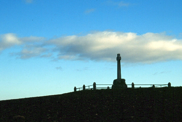 Flodden Memorial. This monument commemorates the Battle of Flodden Field in 1513.